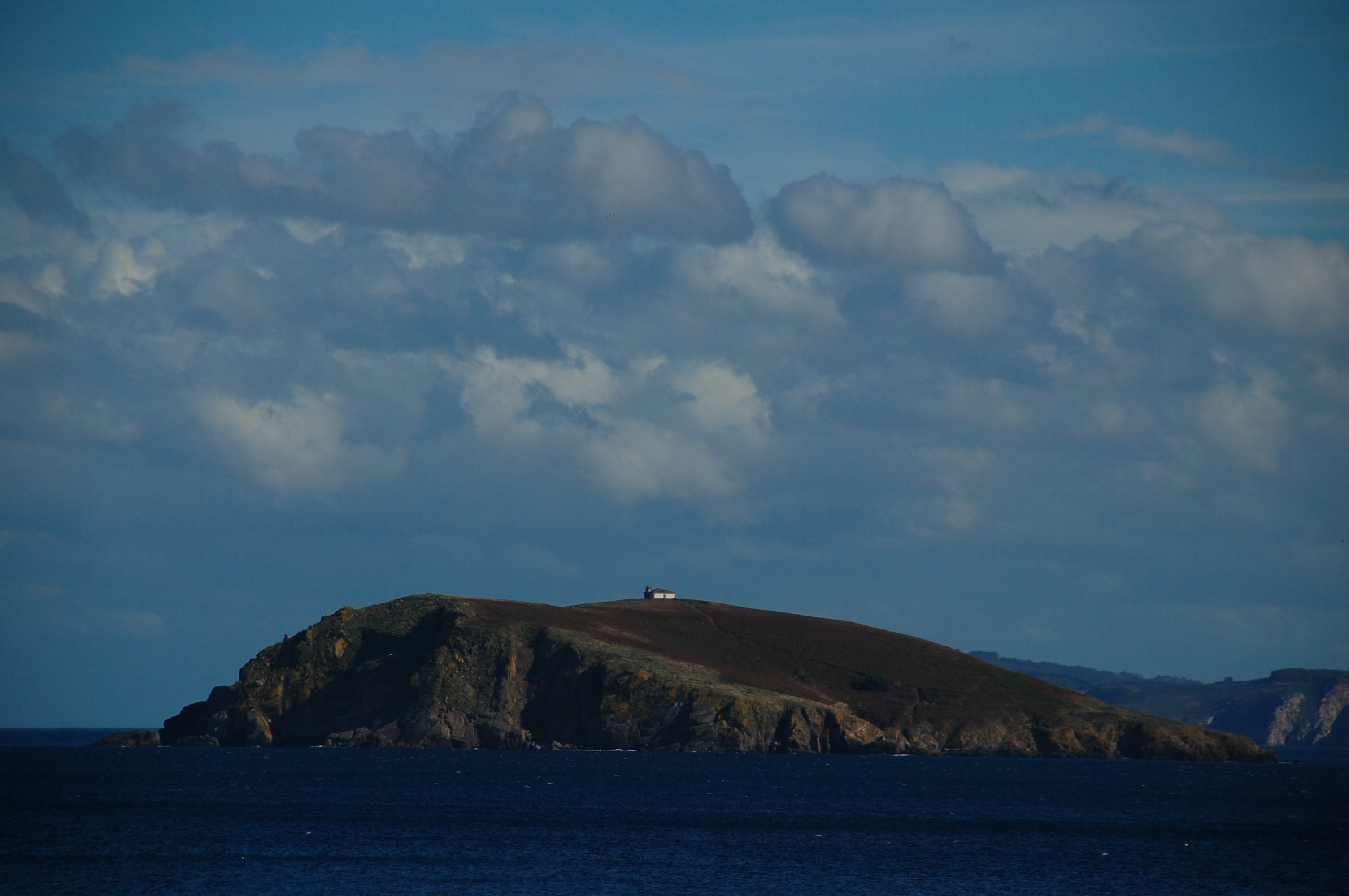 This is a photography of a Site of Community Importance in Spain with the ID: ES1120017. Natura2000 entry, EEA entry